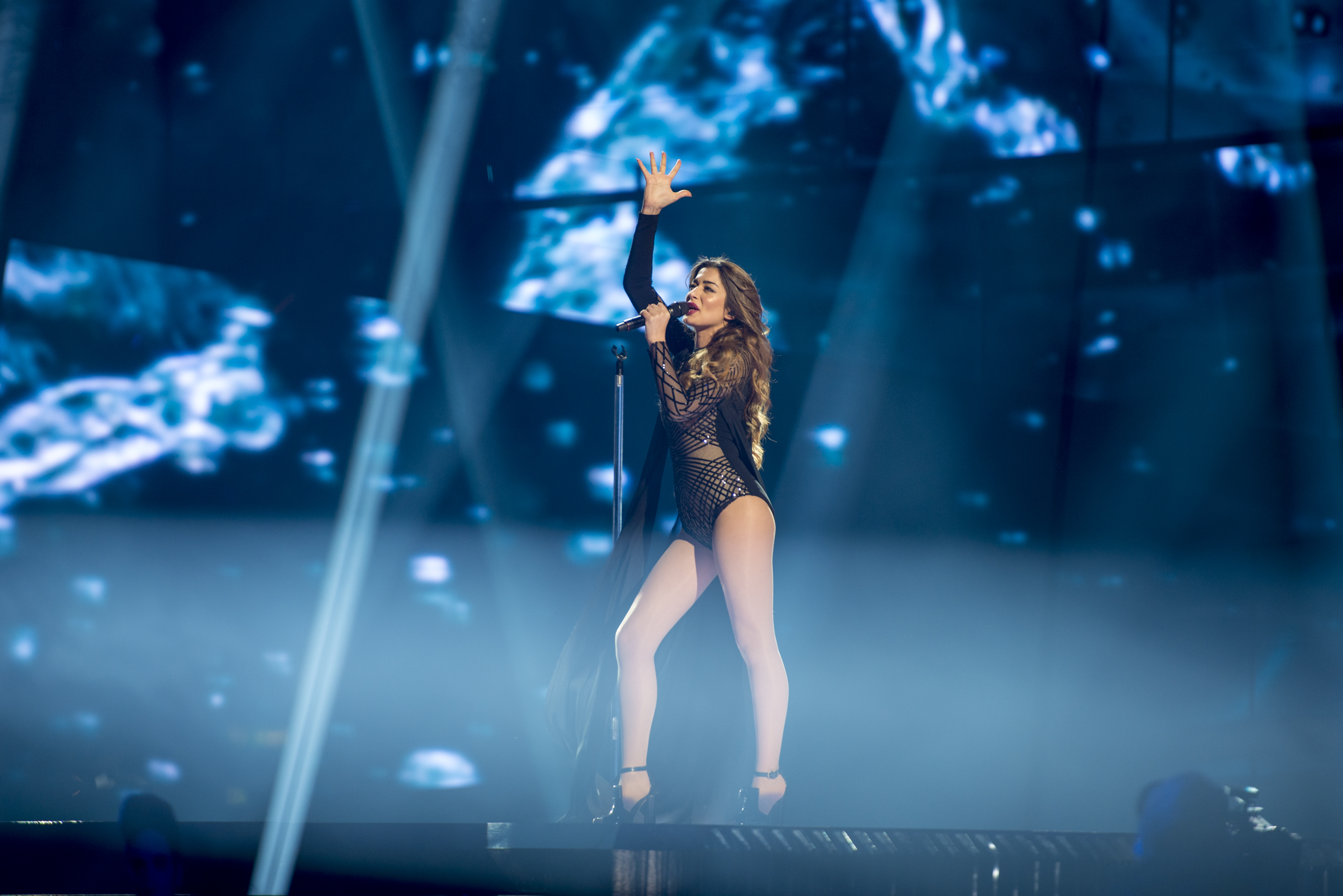 Iveta Mukuchyan representing Armenia with the song "LoveWave" during a rehearsal before the first semi final of the Eurovision Song Contest 2016 in Stockholm. (Help translate this text)